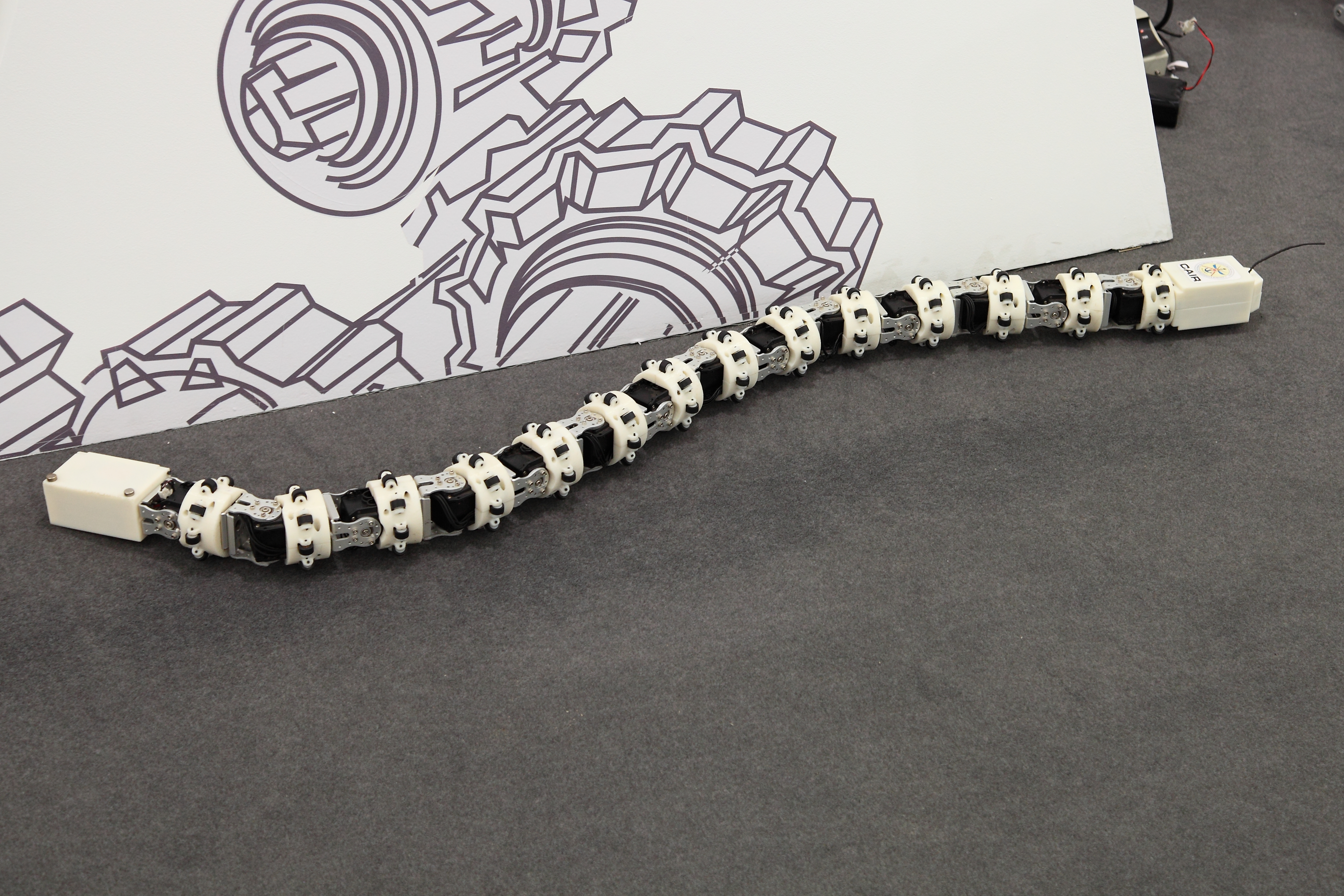 ILA Berlin Air Show 2012 ; robotsnake (India)